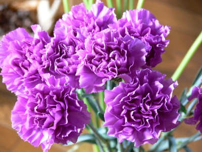 Example of purple carnation cultivar